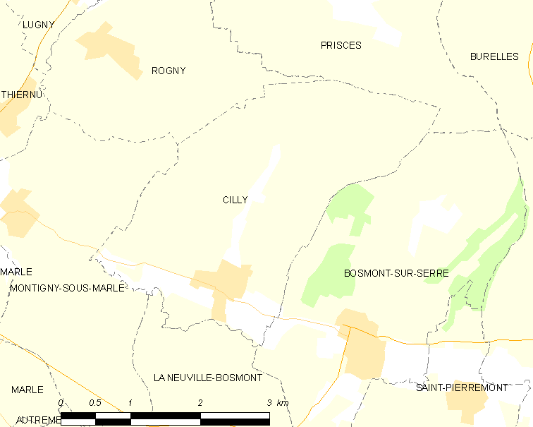 Map of French commune: Cilly Map commune FR insee code 02194.png